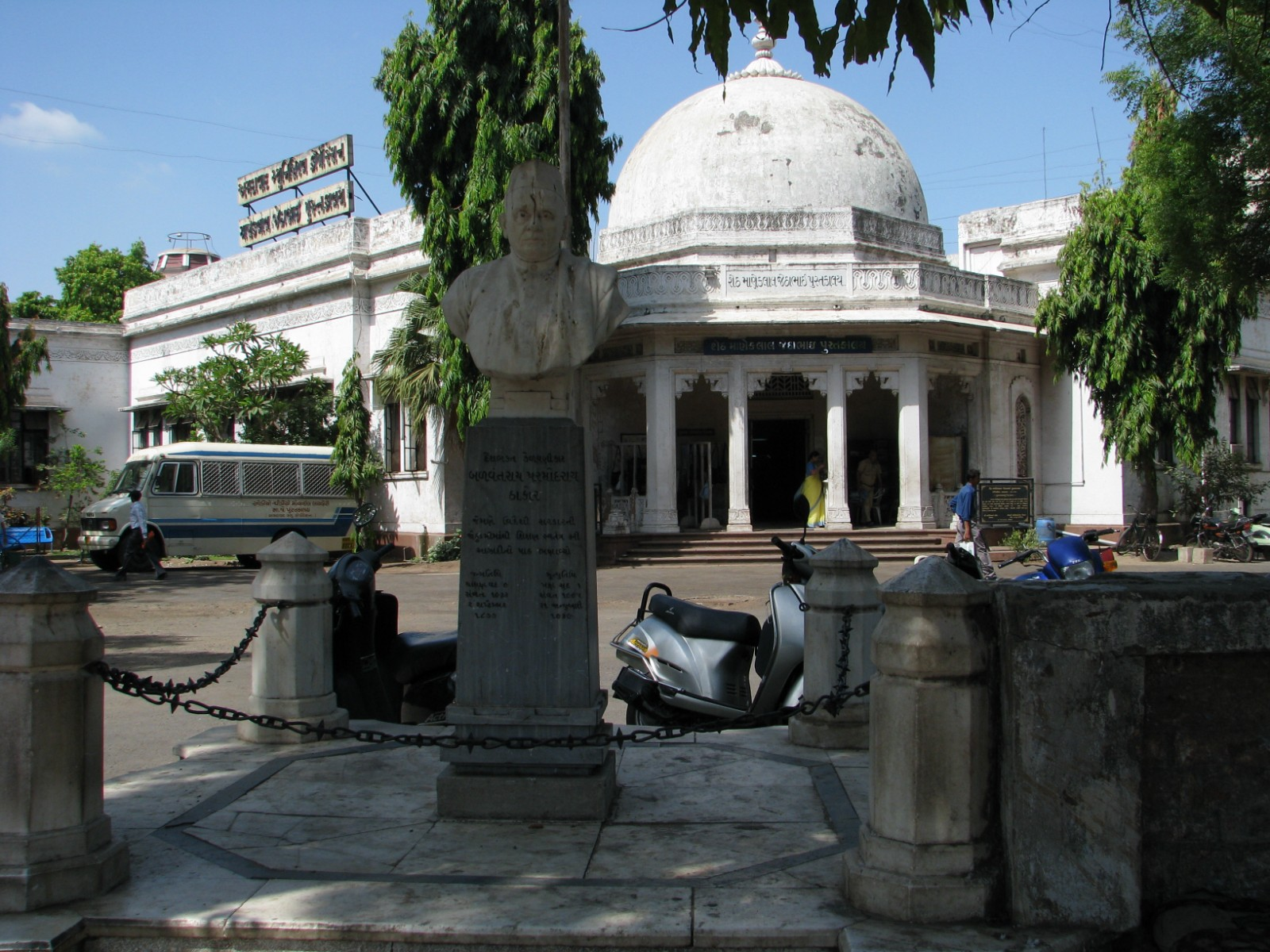 One of the biggest libraries run by AMC – Ahmedabad Municipal Corporation.